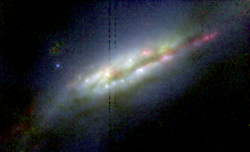 Color rendering is done by by Aladin-software (2000A&AS..143...33B.)